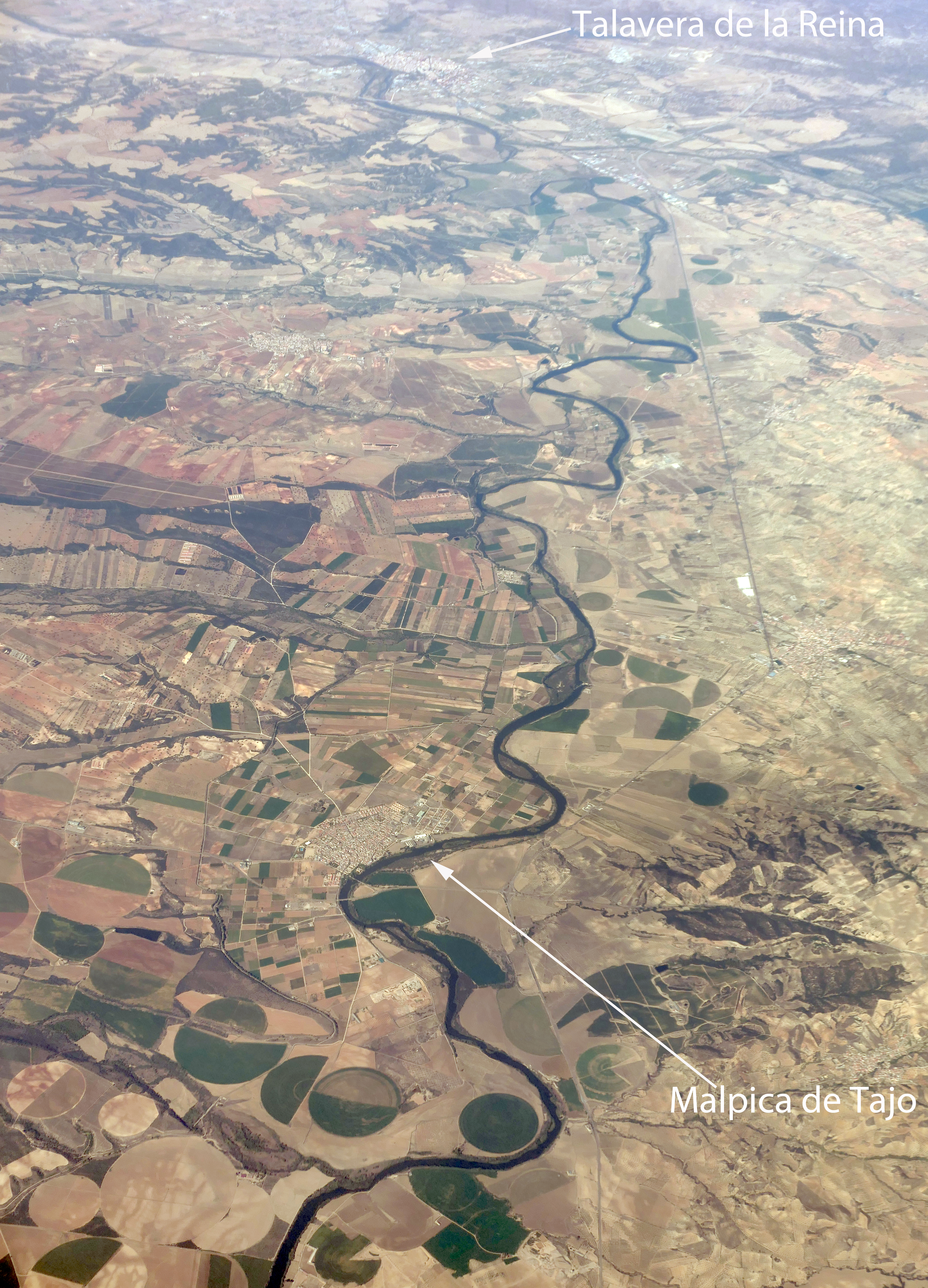 An aerial view of the river Tagus, between Malpica de Tajo and Talavera de la Reina, in the province of Toledo, Spain.